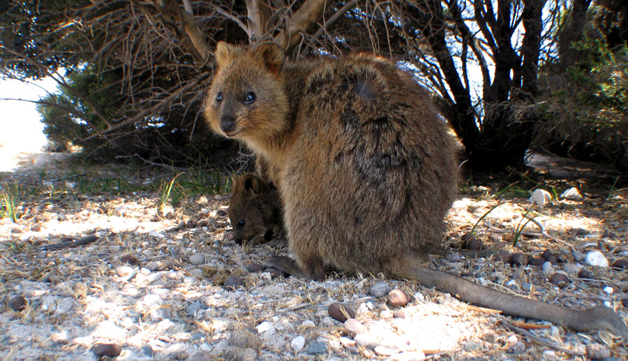 Quokka with child; Western Australia